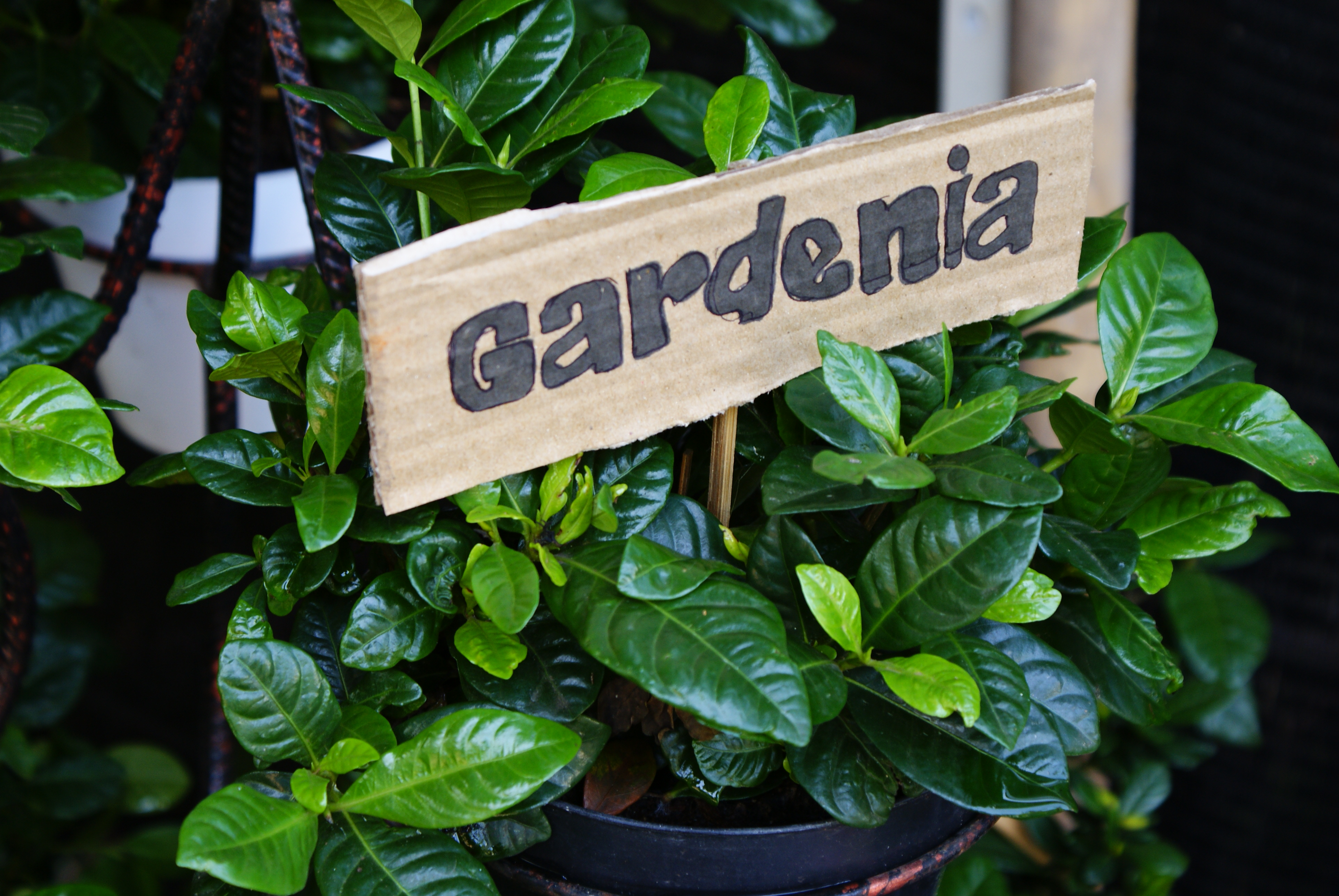 Gardenia plant is sold in annual Jakarta fauna & floral festival (Indonesia)...